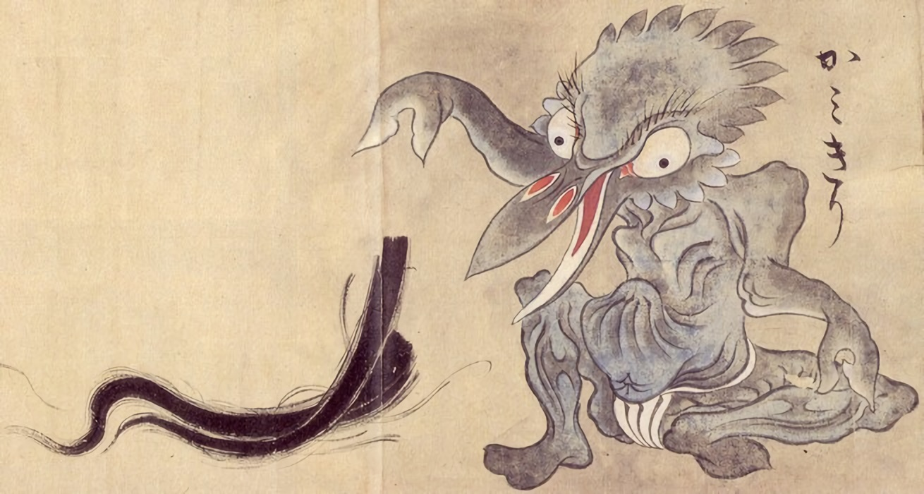 Kamikiri (かみきり, the hair-cutting spirit) from the Hyakkai Zukan (百怪図巻)